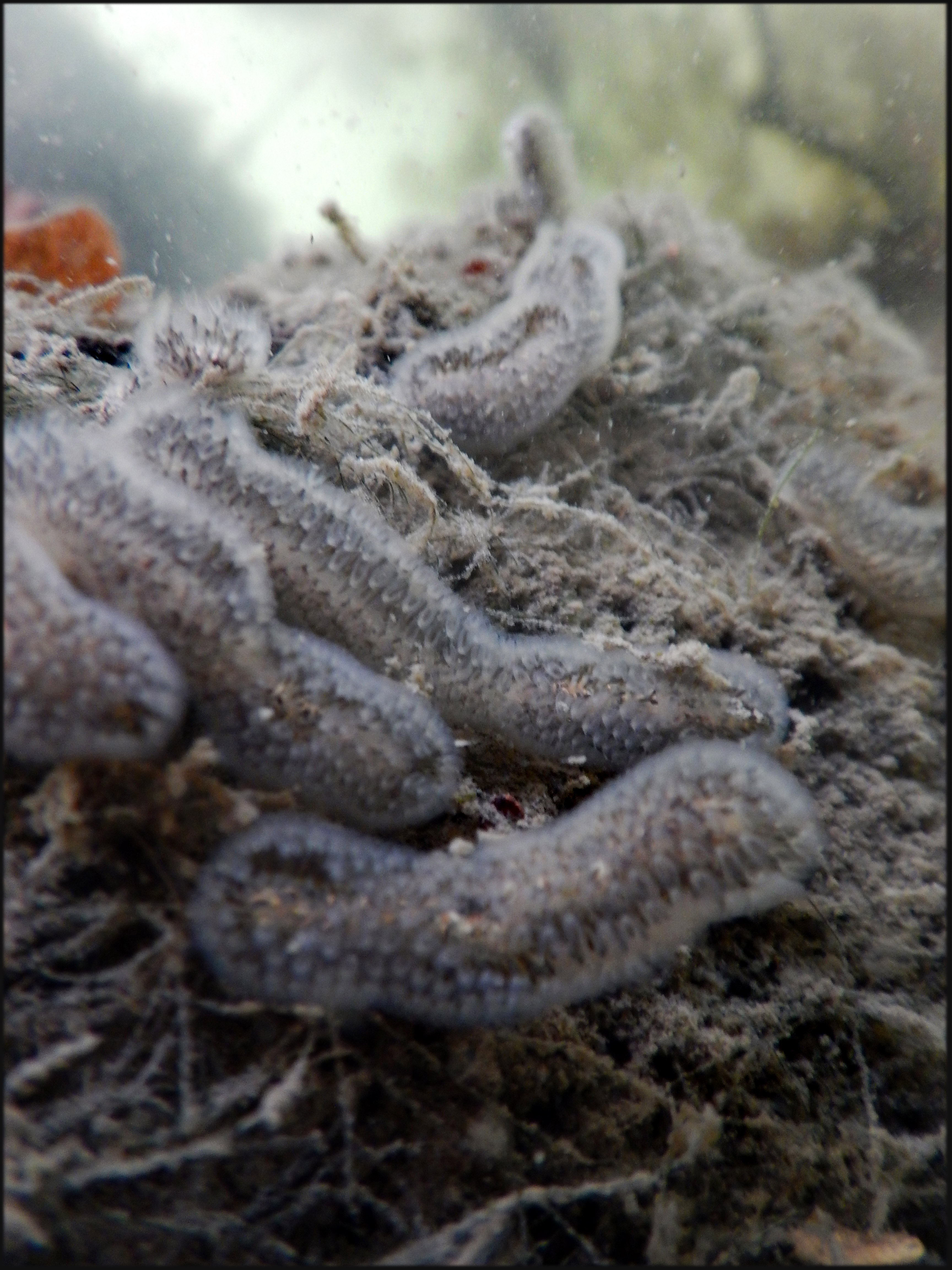 Bryozoan (cristatella mucedo) found living in colonies in the "Mid-Deûle" in the north of France - this fragile species seems to have appeared (or reappeared there) after import of clea water in the canal (over 2 million m3 / year)- . These animals lives in this case in a eutrophic water with sediments are polluted (formerly in constant contact with Upper-Deûle River, coming from the mining area (which were amongst the Métaleurop North Plant), on branches, wood piles, poles or walls ot the canal [but not or very rarely, and in this case may be accidentally) on the sediment] of this ancient channel (that is no longer open to traffic, replaced by a full-size section last more northwest).